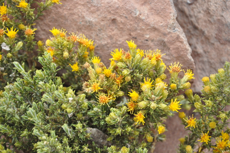 Senecio near Machuca village, Antofagasta Region, Chile